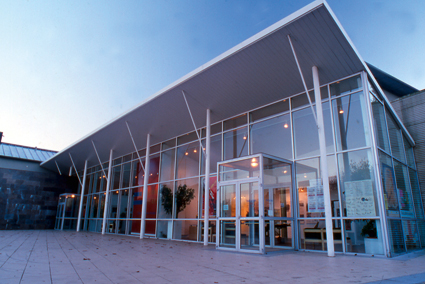 Centre-culturel-Jean-Pierre-Fabregue